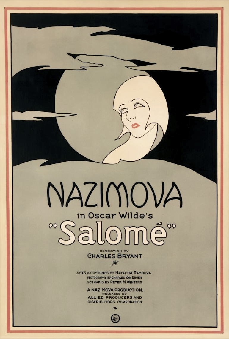 Poster from the film Salomé, directed by Charles Bryant and starring Alla Nazimov.